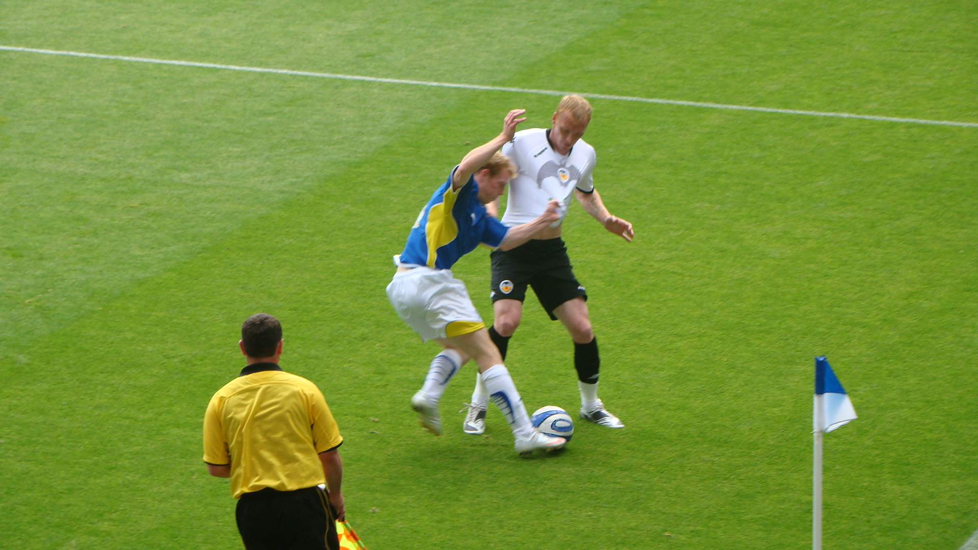 01/08/09 Cardiff City V Valencia CF, Pre-Season Friendly, Cardiff City Stadium